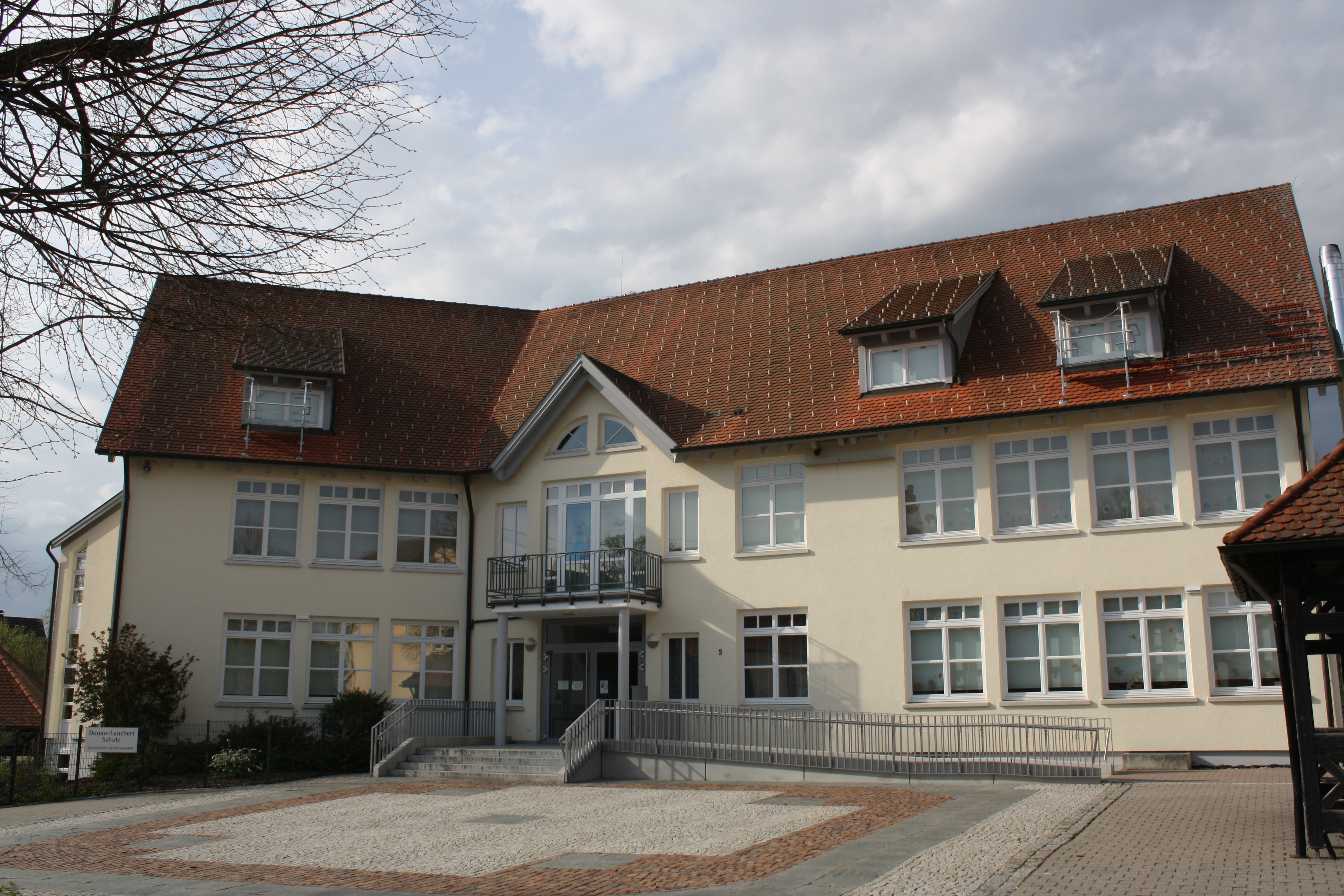 Donau-Lauchert-School, Elementary school in Sigmaringendorf, Germany